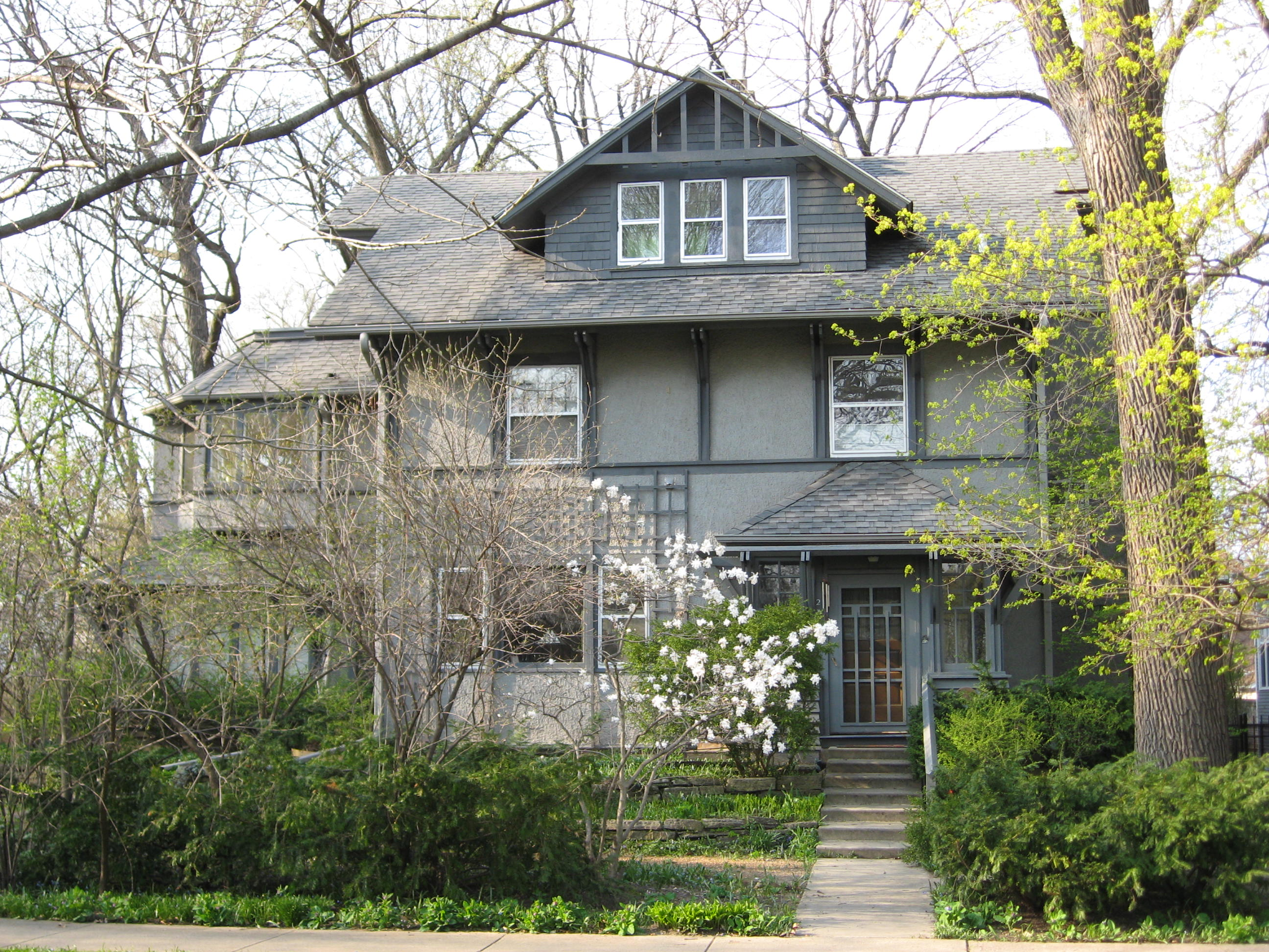 2319 Lincoln St Evanston, IL 60201